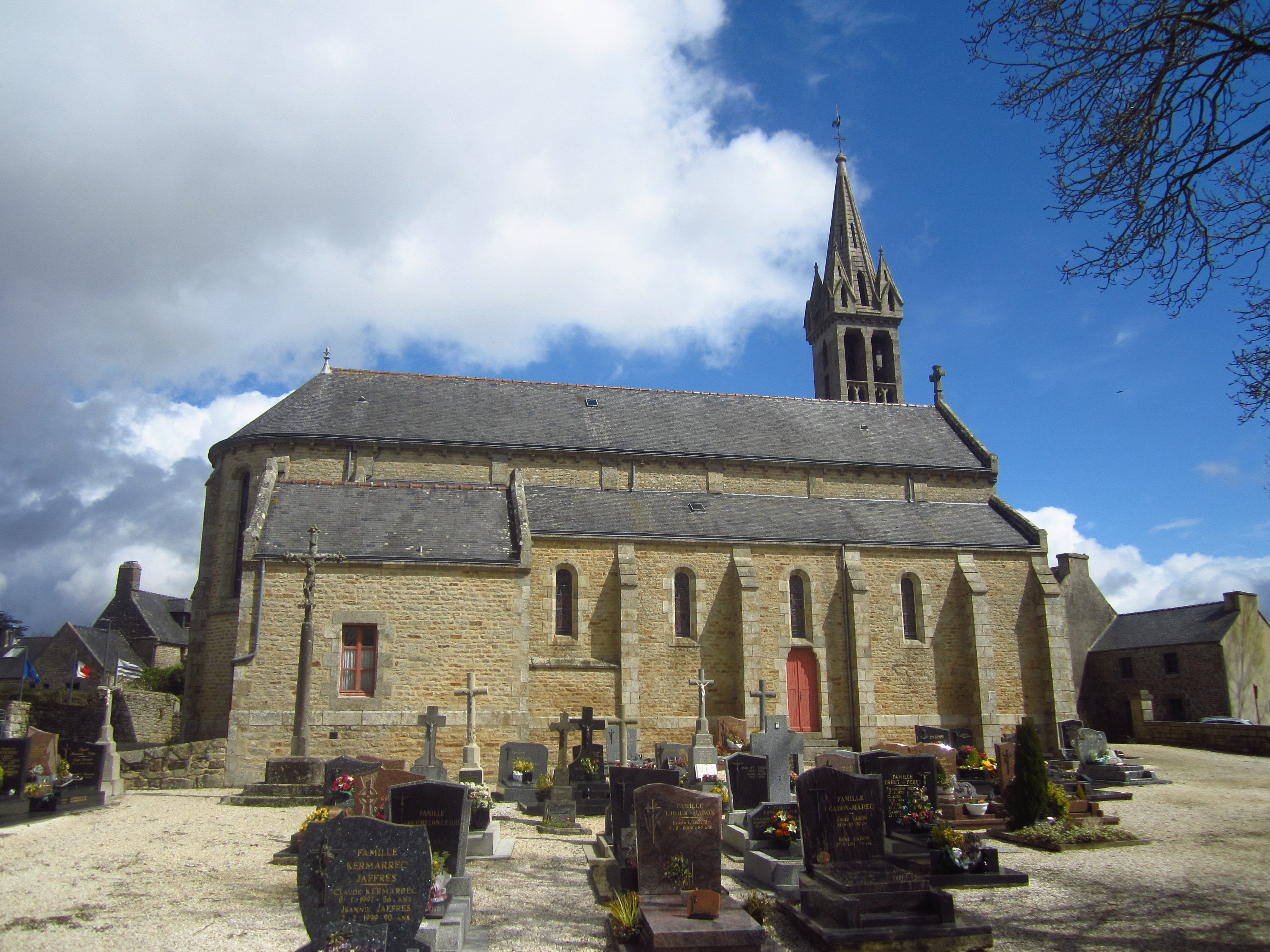 Church of Tréouergat, Finistère